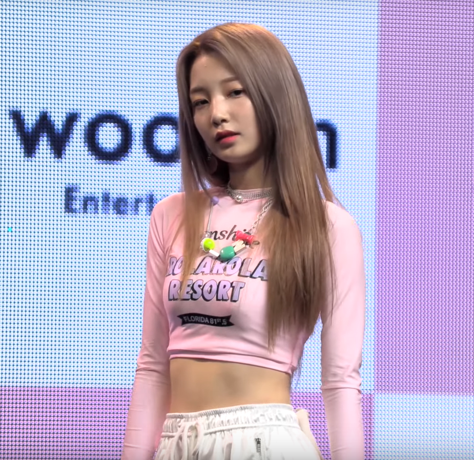 2019_Pink_Punch_Showcase_In_Yeon_Hee